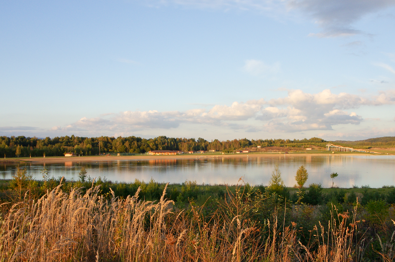 Sokolov, Lake Michal